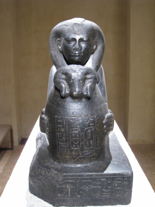 Sphinx of Shepenupet II, daughter of pharaoh Piye - Egyptian Museum of Berlin